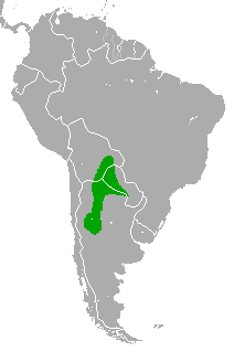 Dolichotis salinicola range map Source